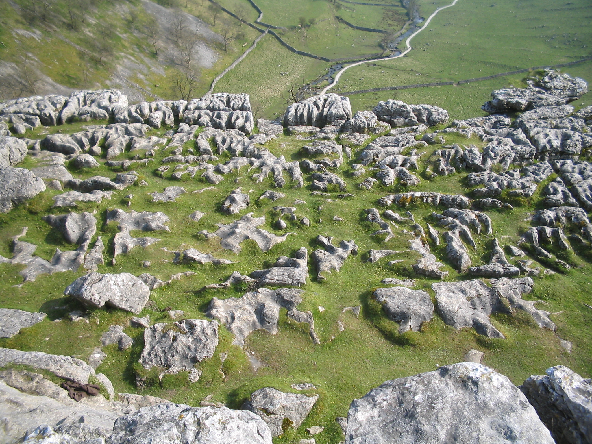 Limestone pavement at the top of Malham Cove. David Benbennick took this photo on Sunday, April 24, 2005 at 4:22 PM (15:22 UTC).